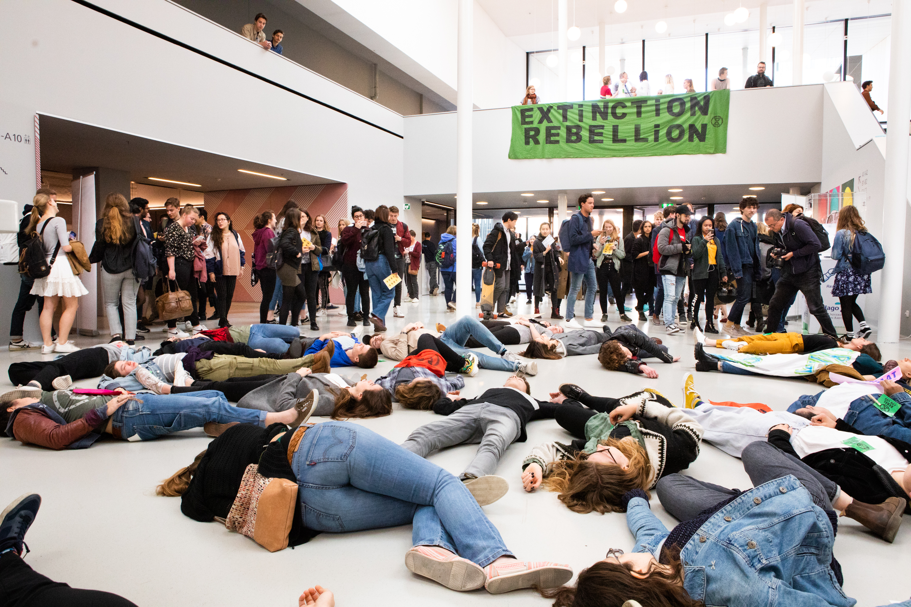 Students of Extinction Rebellion perform a die-in on the campus of the UVA in Amsterdam to raise awareness on the ecological crisis.